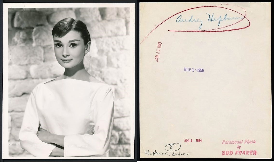 Photo of Audrey Hepburn by Bud Fraker.